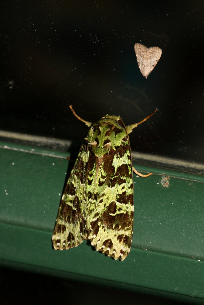 Malaysia, Fraser's Hill. March 2009